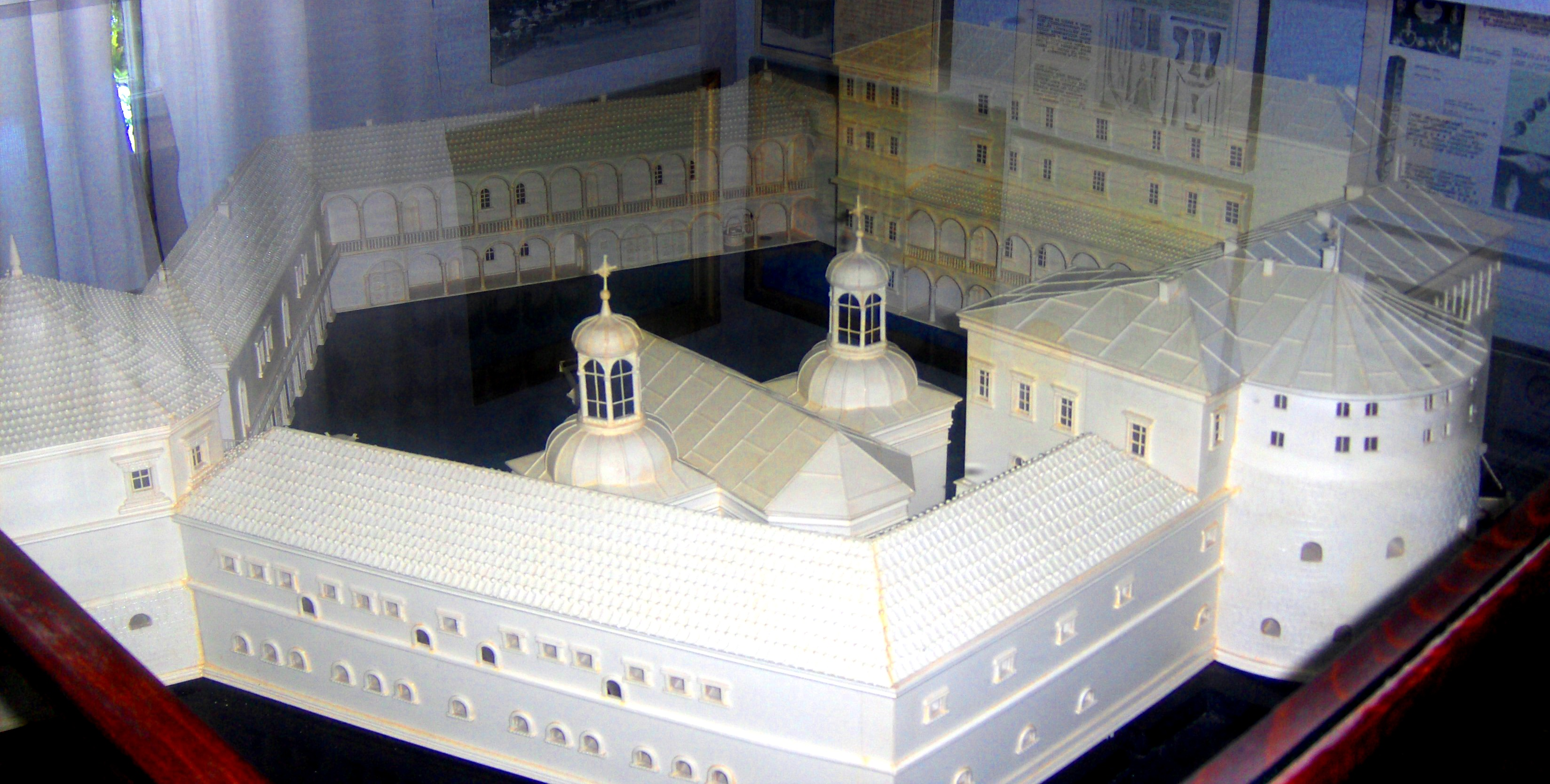 Model of Berezhany castle at city museum, Berezhany, west Ukraine.